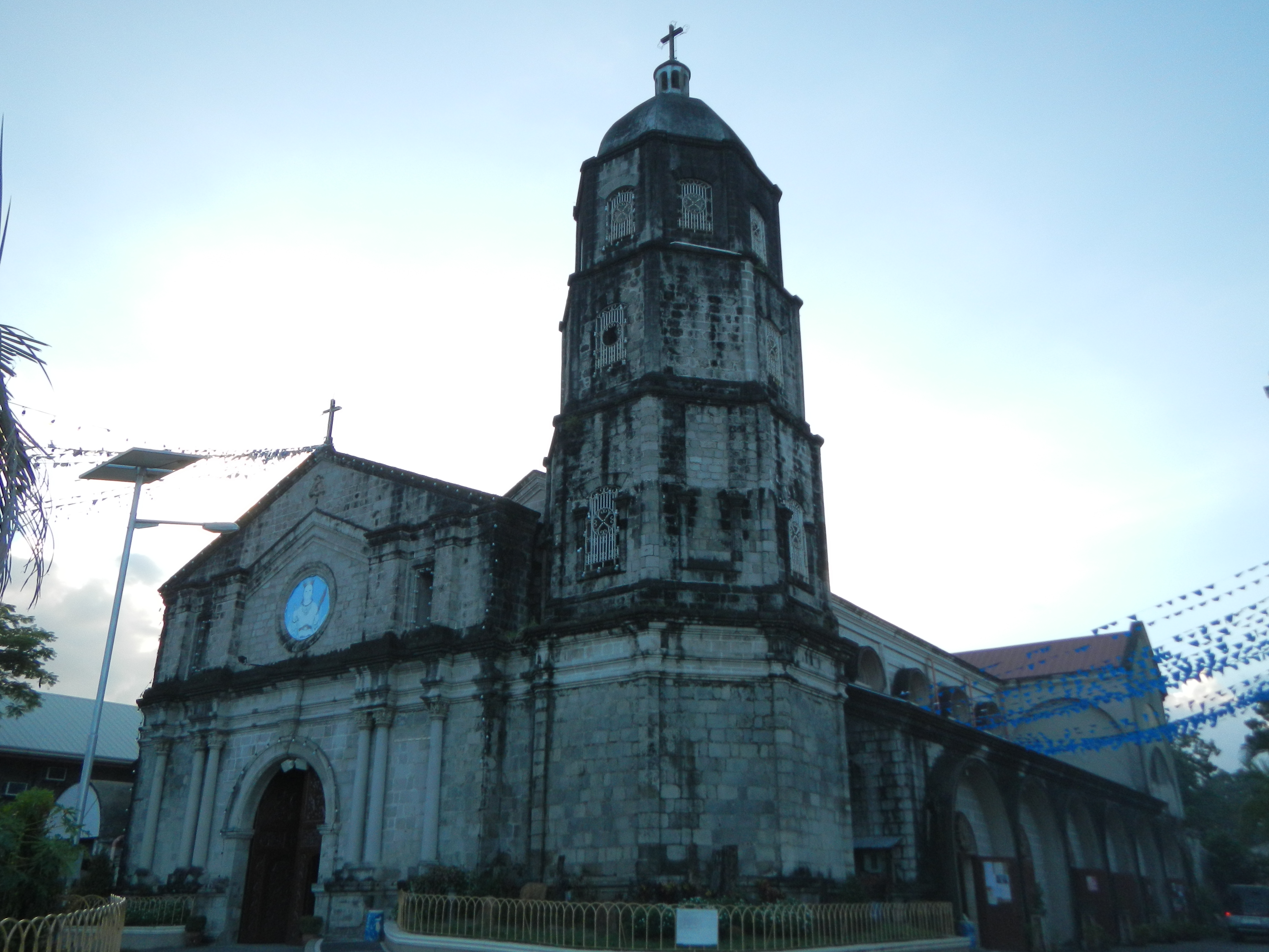 St. Catherine Alexandra Church Porac, Pampanga[1]